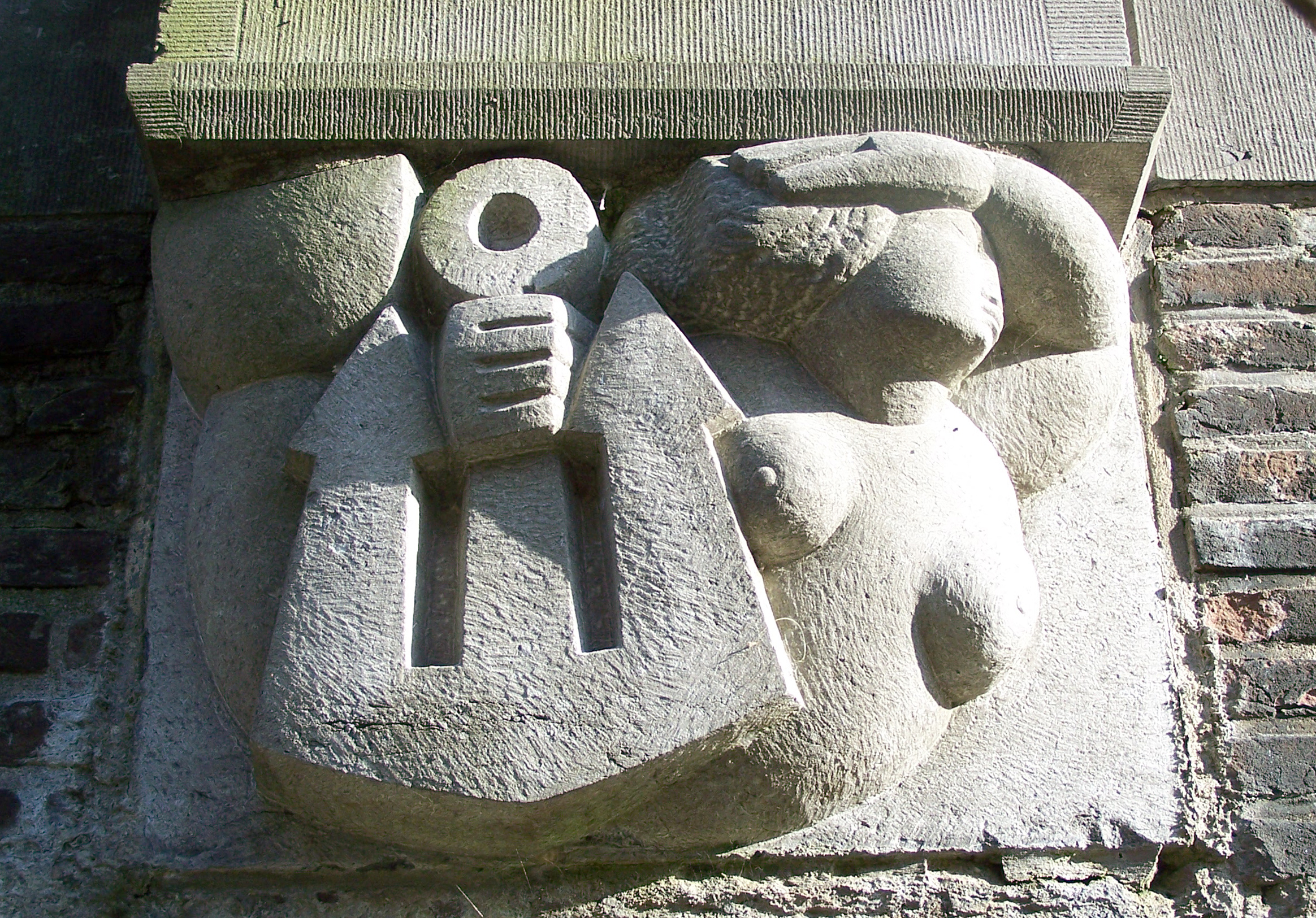 Streetlight corbel "Den Ancker", made by Jeanot Bürgi in ? (±1969). Placed at Oudegracht 12. Referring to the old name of the house.